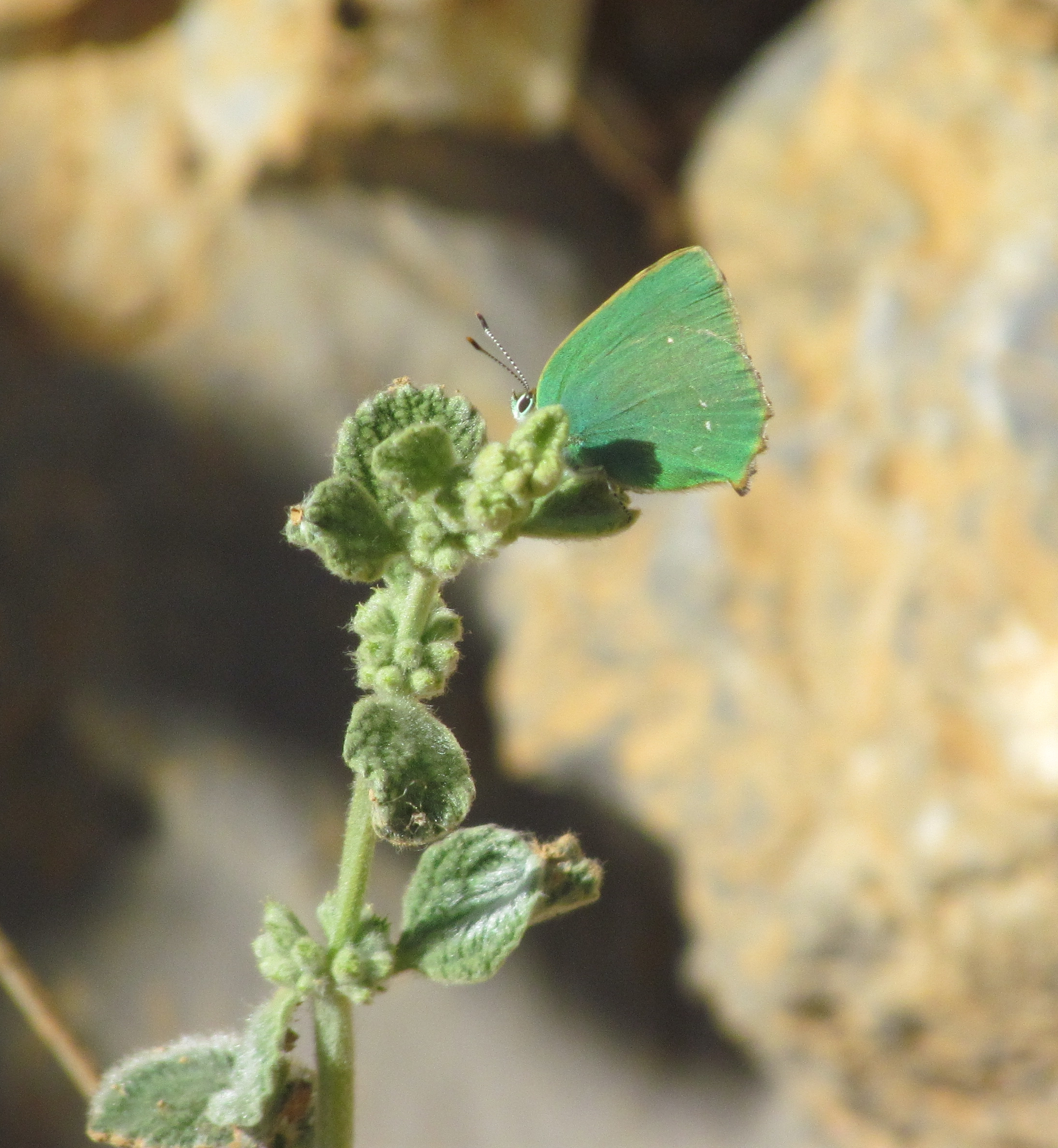 כחליל הרקולס (Callophrys herculeane), בטעות מכונה כחליל ירוק, סיור האגודה לניטור פרפרים בחרמון, 1 ביוני 2013